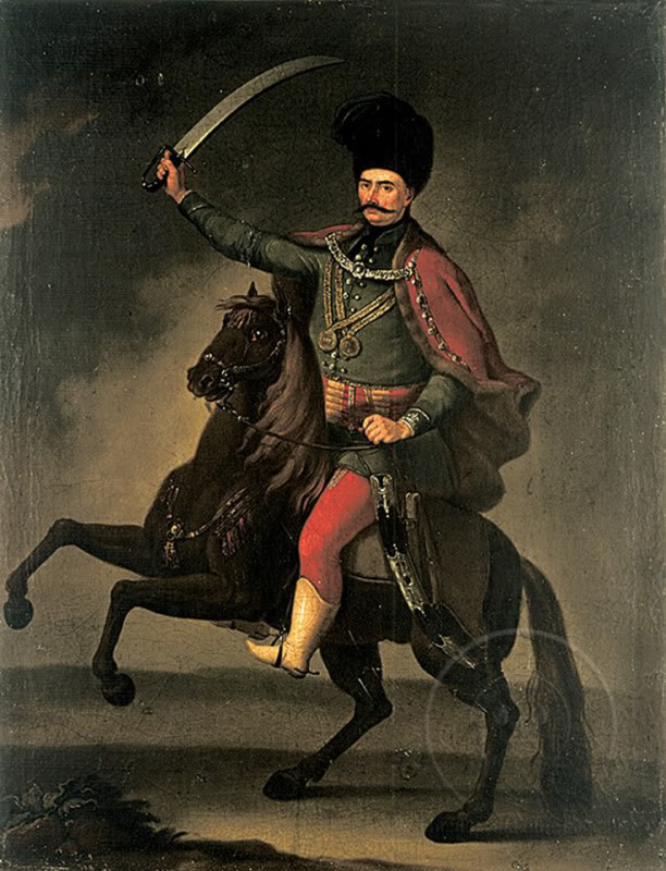 "Bogić Vučković", oil painting by Arsa Teodorović dated 1812. Gallery of Matica srpska.